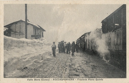 Roccasparvera, tramway station